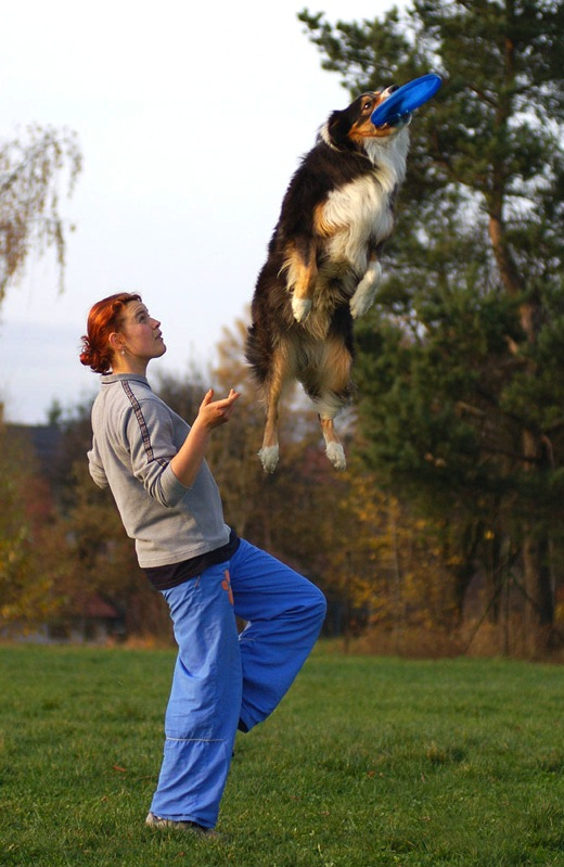 leg vault